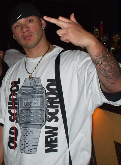 Young Sid, member of Smashproof, in Dunedin, New Zealand, 2008.